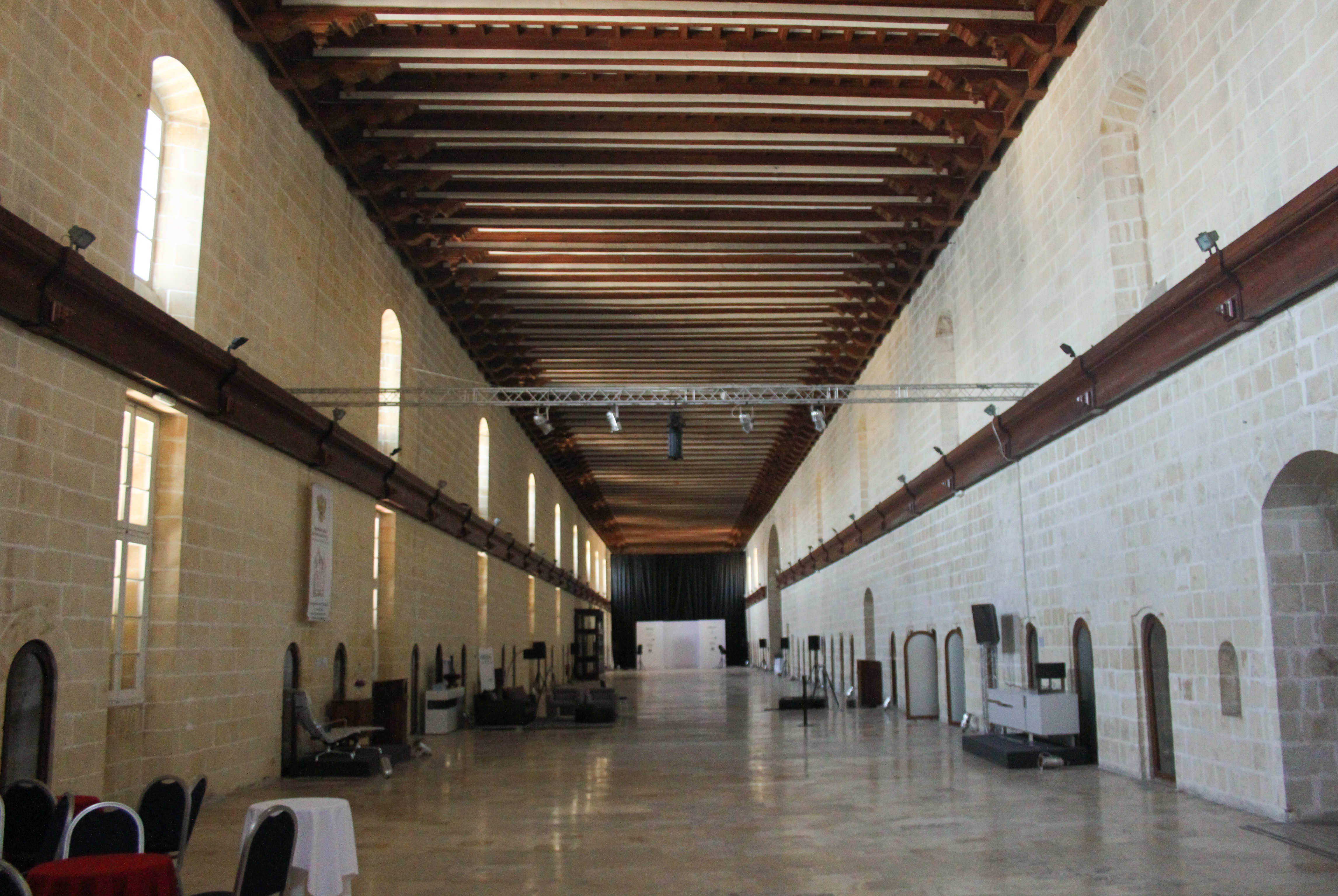 Sacra Infermeria, main hall